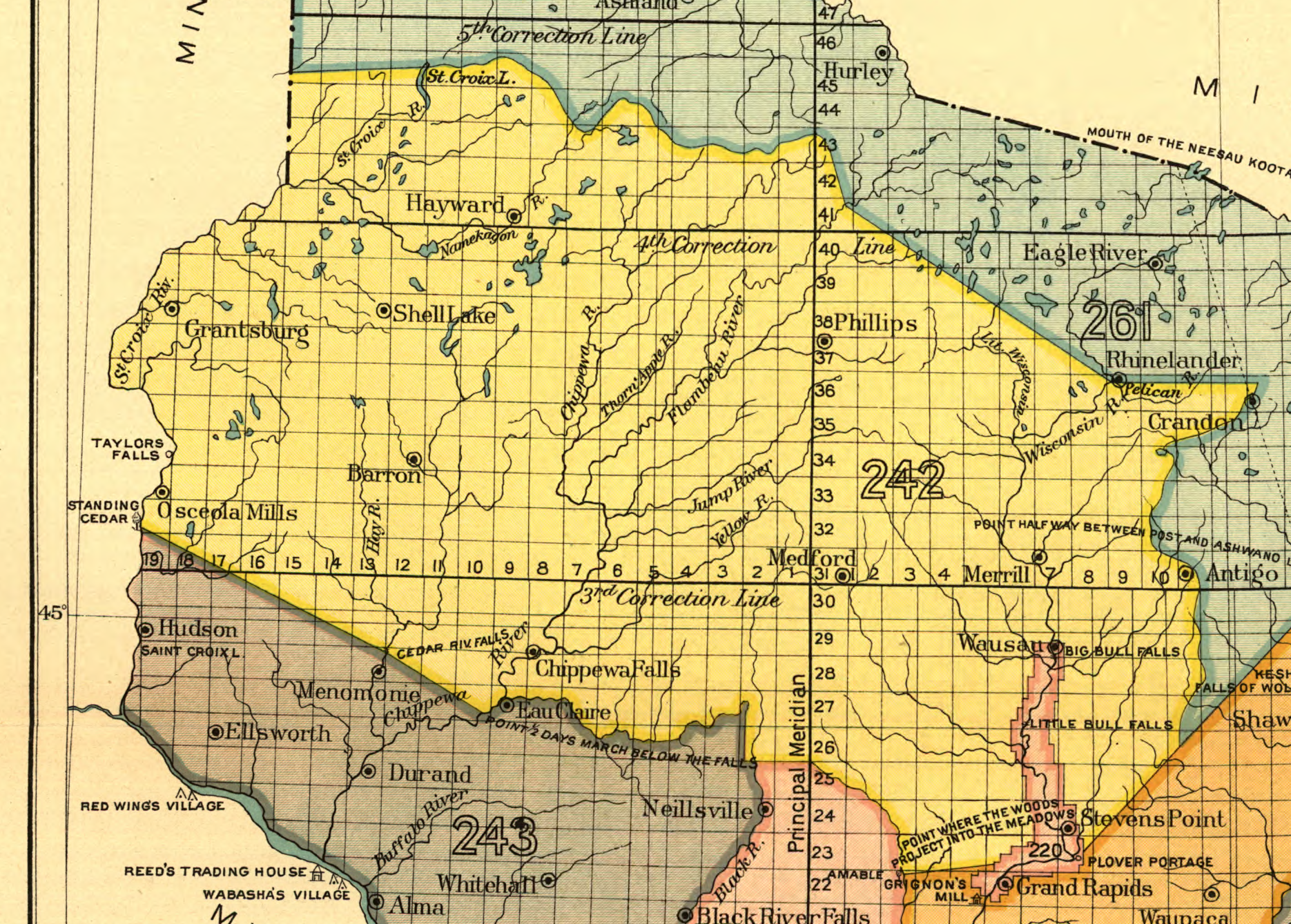 Map of the Wisconsin portion of Treaty_of_St._Peters#1837_Treaty_of_St._Peters. The Wisconsin portion is designated as 242 on the map.